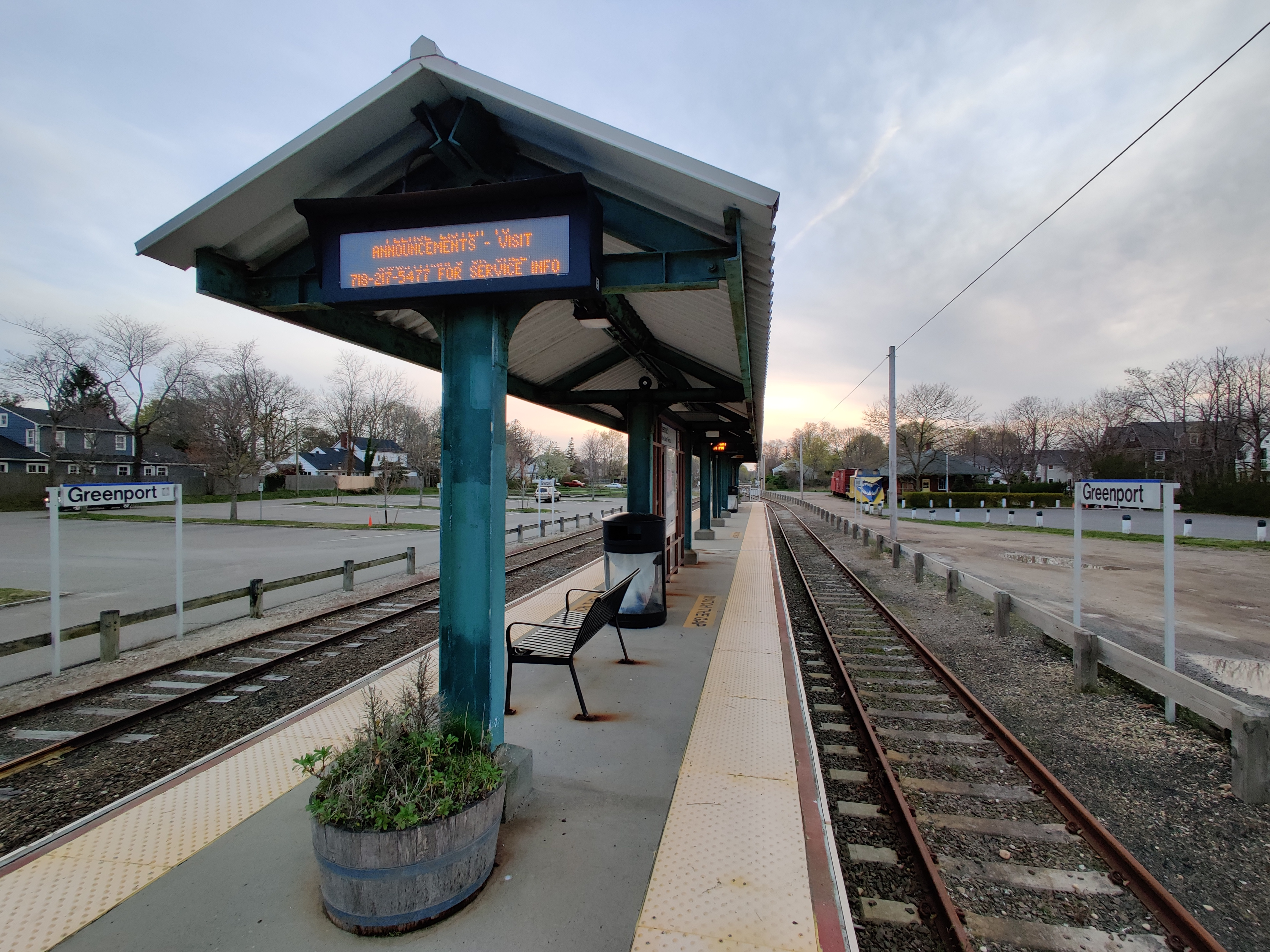 A platform photo of the Long Island Rail Road Greenport station, facing west.